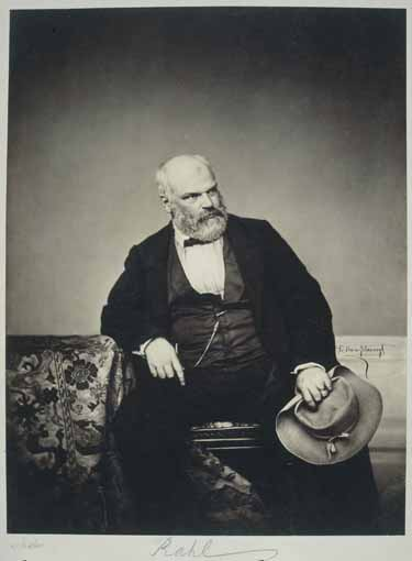 Carl Rahl (1812–1865) Alternative namesc. rahl; rahl karl; carl rahl; karl rahl; k. rahlDescriptionAustrian painter and university teacherDate of birth/death13 August 18129 July 1865Location of birth/deathViennaViennaAuthority control : Q671839 VIAF: 66739416 ISNI: 0000 0001 1446 8323 ULAN: 500056765 WGA: RAHL, Carl GND: 116324554